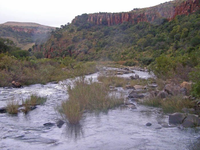 Komati gorge looking downstream of the komati river.